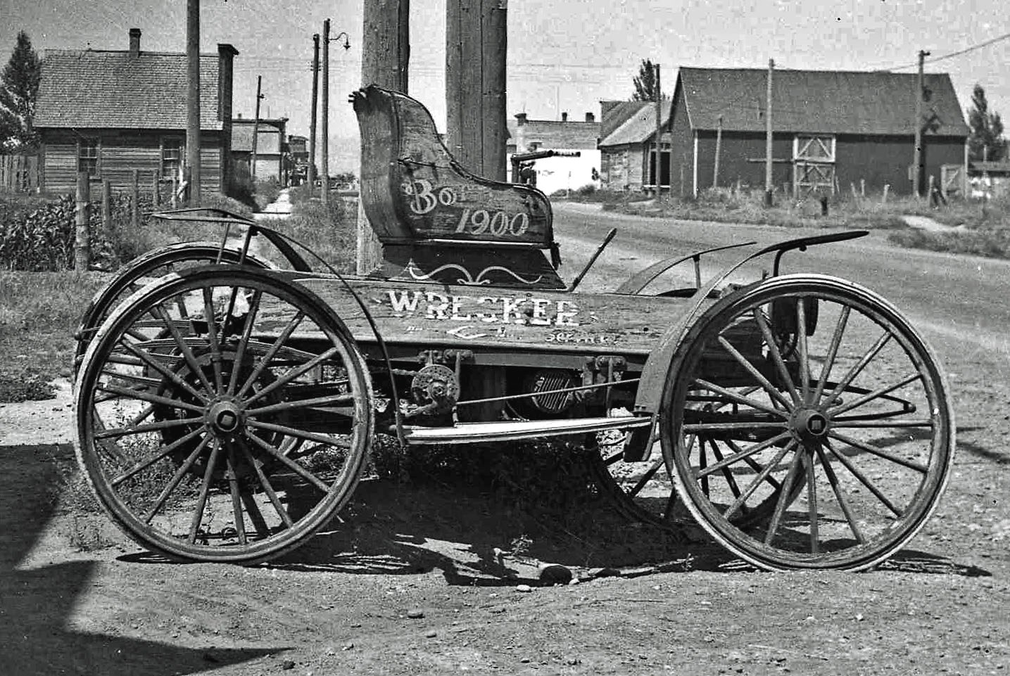 1900 Horseless carriage: I probably took the photo somewhere in Oklahoma or Texas during September 1936. My brother and I got out of school for a family trip to Texas when I was in 7th grade that fall. I had a 620 Kodak that took 2 1/4 x 3 1/4 pictures. I wonder if someone will recognize the town or vehicle? I assume the vehicle was bought in 1900. I can't make out the letters after BO.